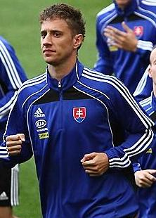 Kornel Saláta